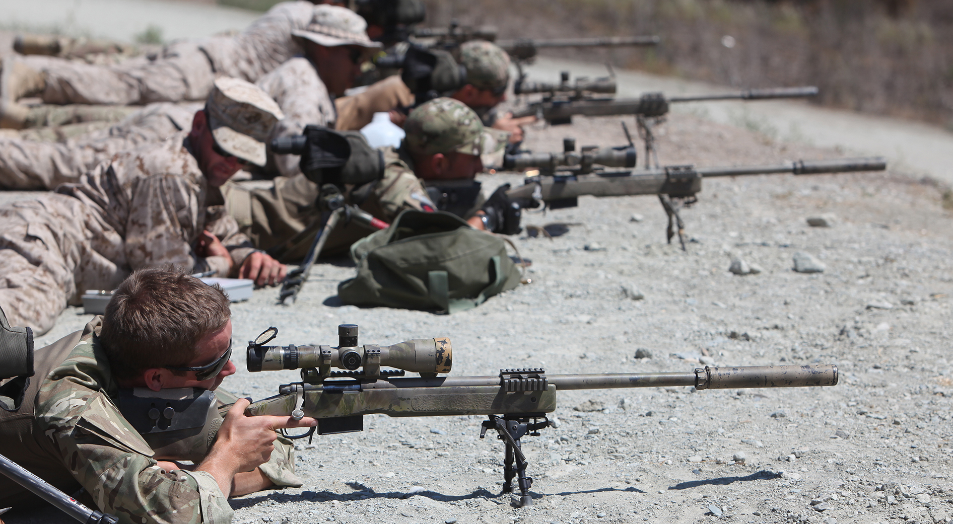 British Army Commandos of 148th Battery, 29th Commando Fire Support Team, Royal Artillery, take aim with M40A5 sniper rifles alongside Marines with 1st Air Naval Gunfire Liaison Company during joint training Exercise Burmese Chase aboard Camp Pendleton, Calif., Sept. 3, 2013. The training exercise was designed to increase confidence with locating targets at unknown distances. (U.S. Marine Corps photo by Lance Cpl. Cody Haas/Released)